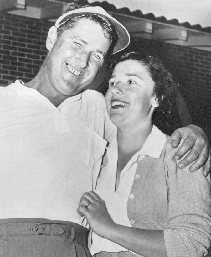 1953 Professional Golfer Lew Worsham & Wife at Winning Tournament Press Photo